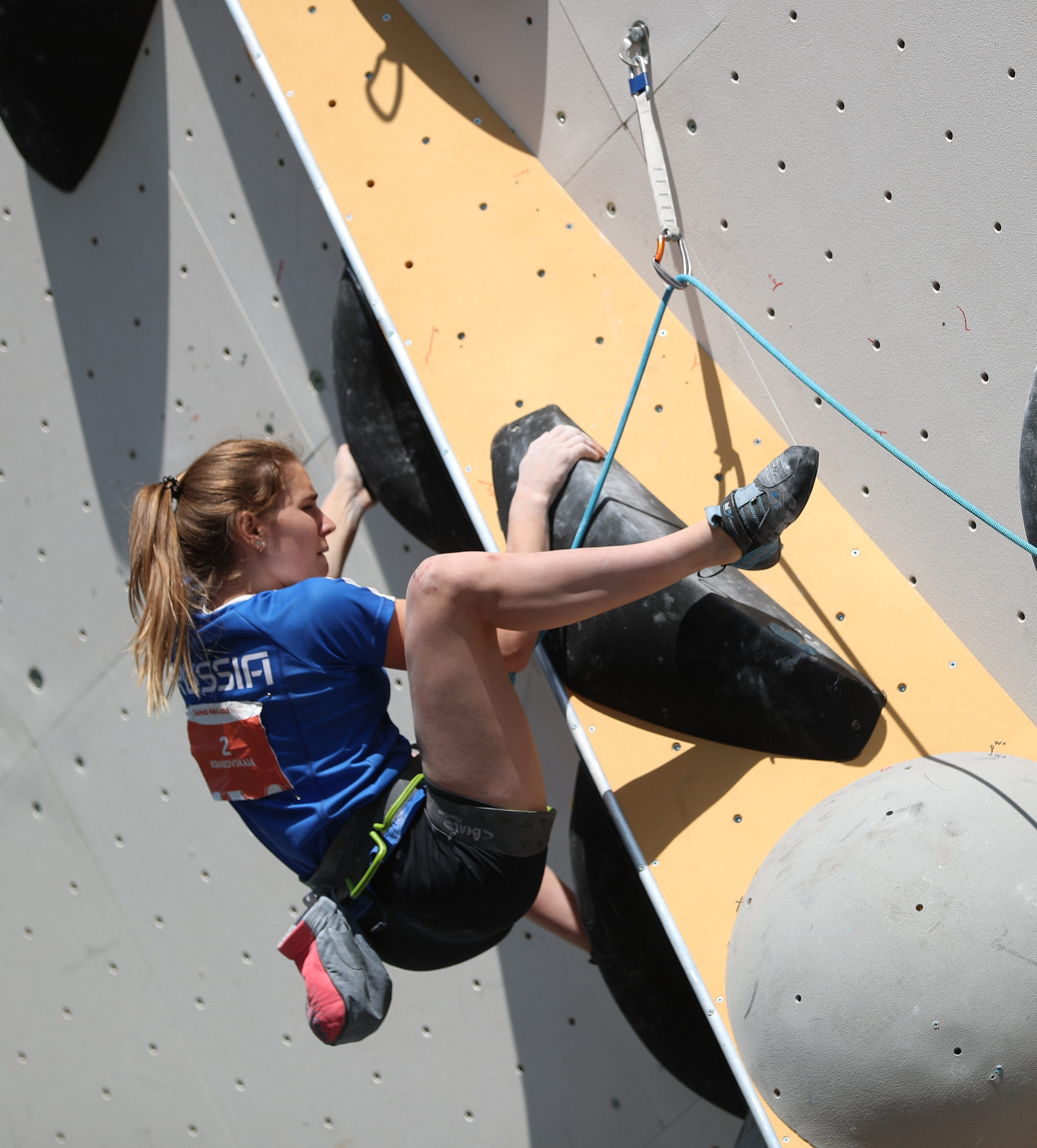 Lead climbing competition in the final of the girls' sport climbing at the 2018 Summer Youth Olympics in Buenos Aires on 9 October 2018.